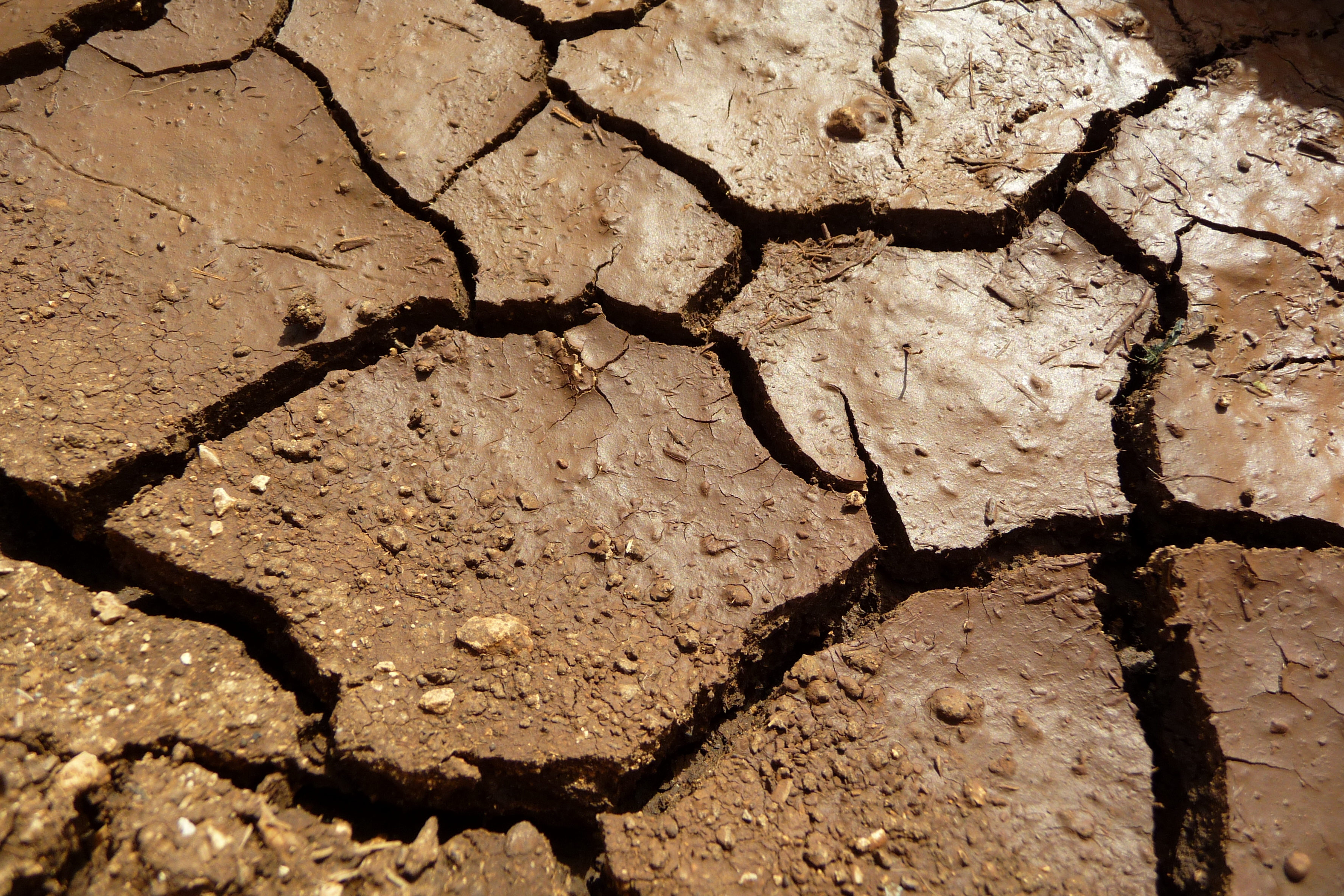 Carmel Park